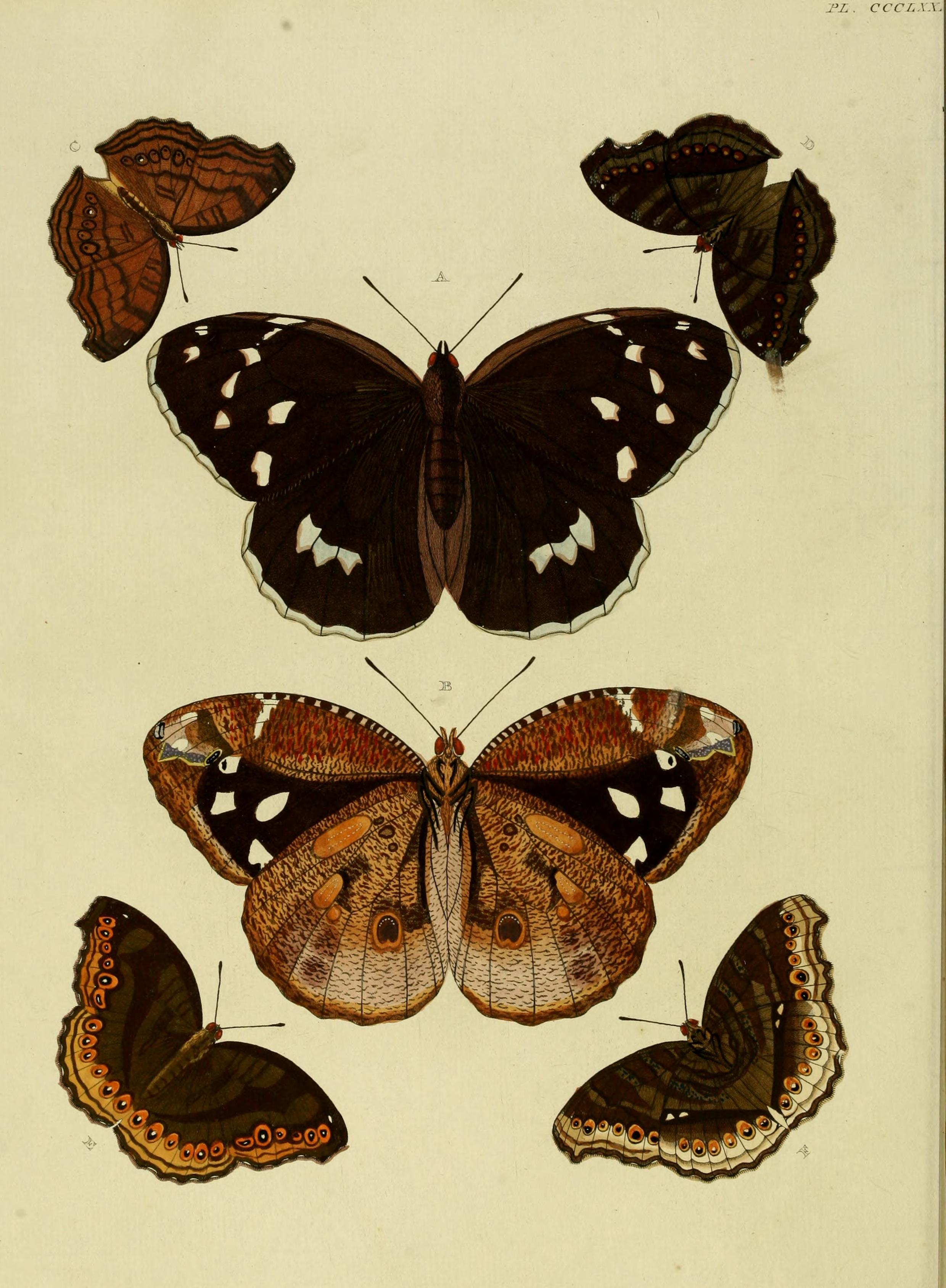 Plate CCCLXXIV Warning: some taxa/names may be misidentified/misapplied or placed in a different genus. A, B: "(Papilio) Anaxarete" ( = Dynastor darius anaxarete (Cramer, [1776]), see Funet). Photos at Butterflies of America. In French description as "Anaxareta" Also on pl. 95 A, B. C, D: "(Papilio) Ida" ( = Junonia hedonia ida) (Cramer, [1775]), see Funet). Photos at Semarang Lepidoptera Web. Female. Male on pl. 42 C, D. Also on pl. 69 C, D as "(Papilio) Hedonia". E, F: "(Papilio) Hedonia" = Junonia hedonia, see C, D.